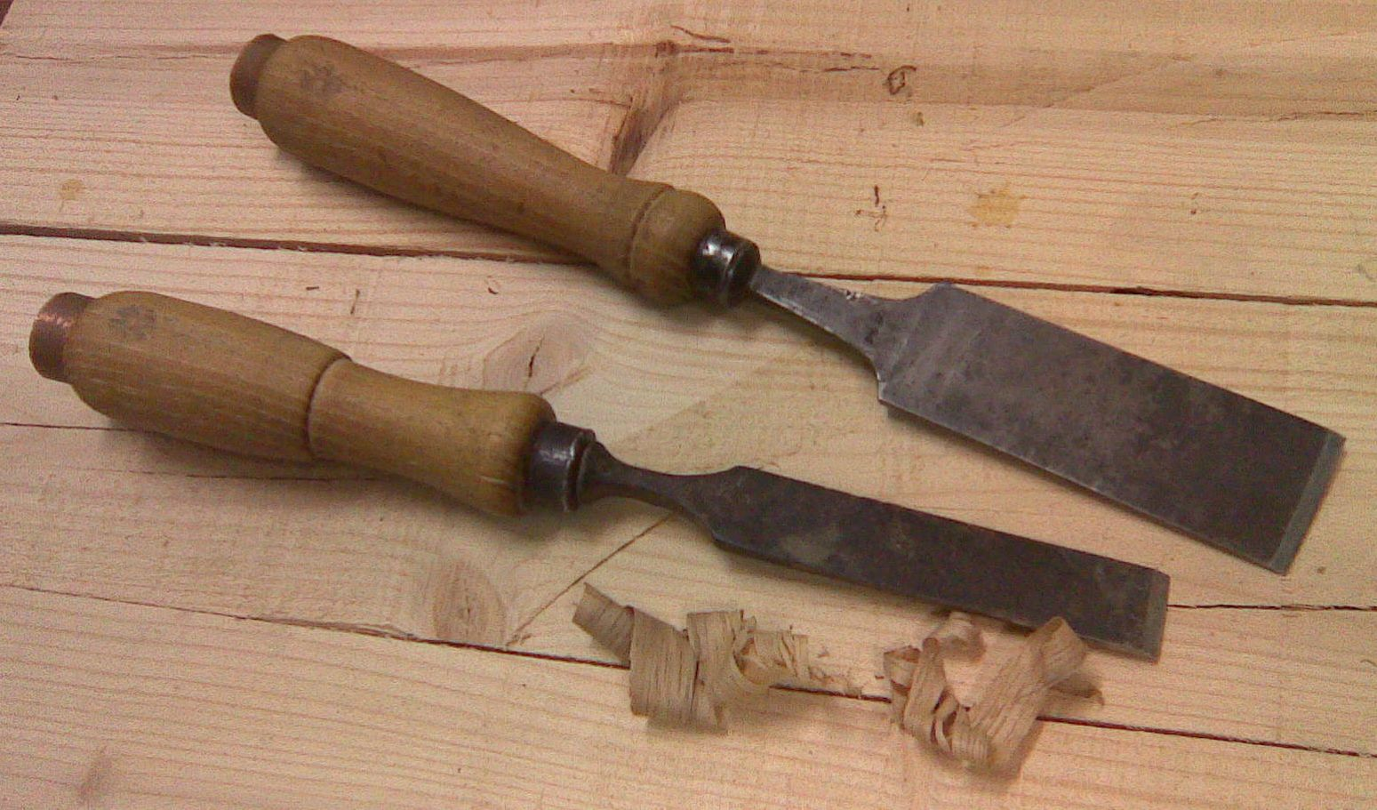 Chisels